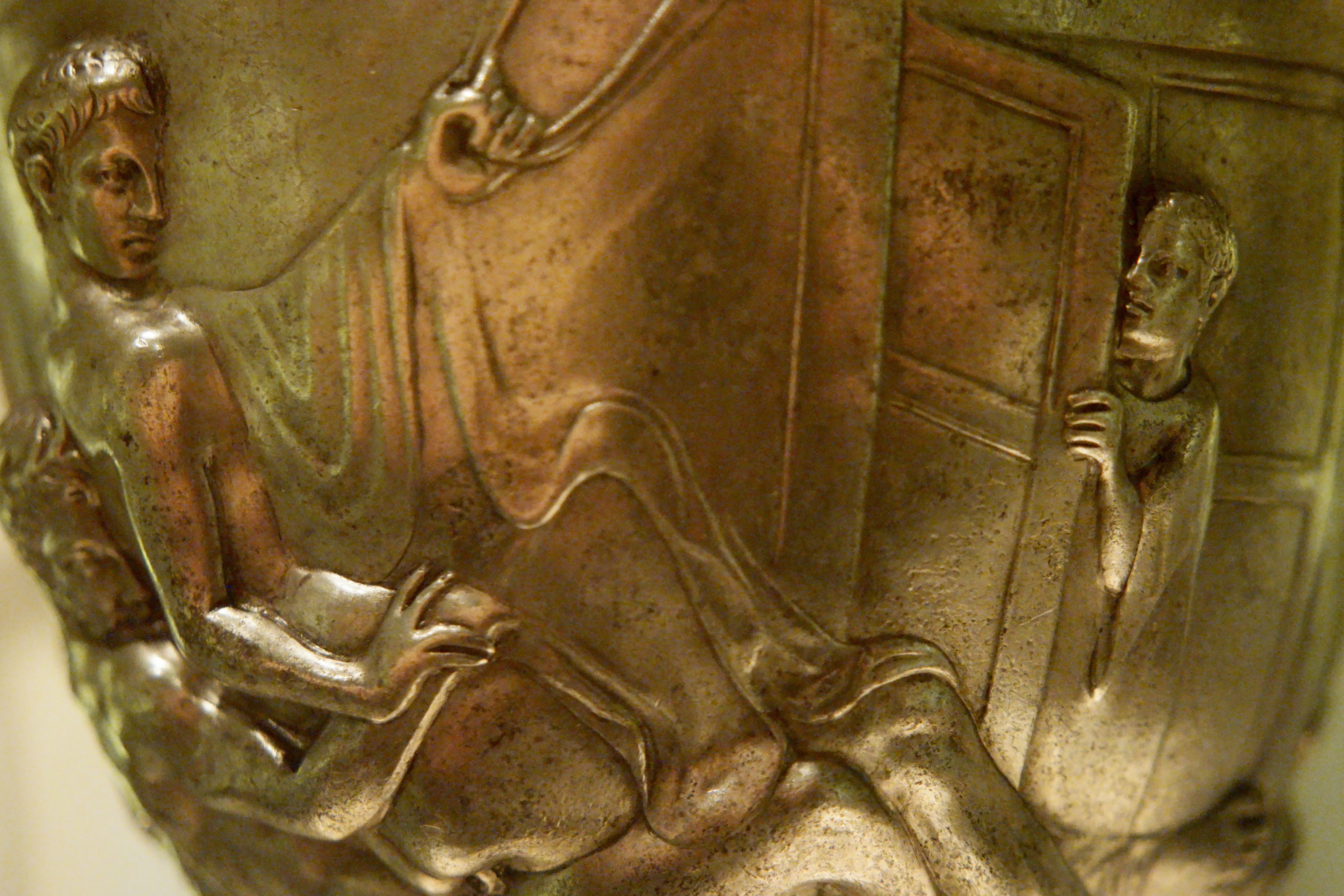 See Warren Cup. British Museum, GR 1999,0426.1